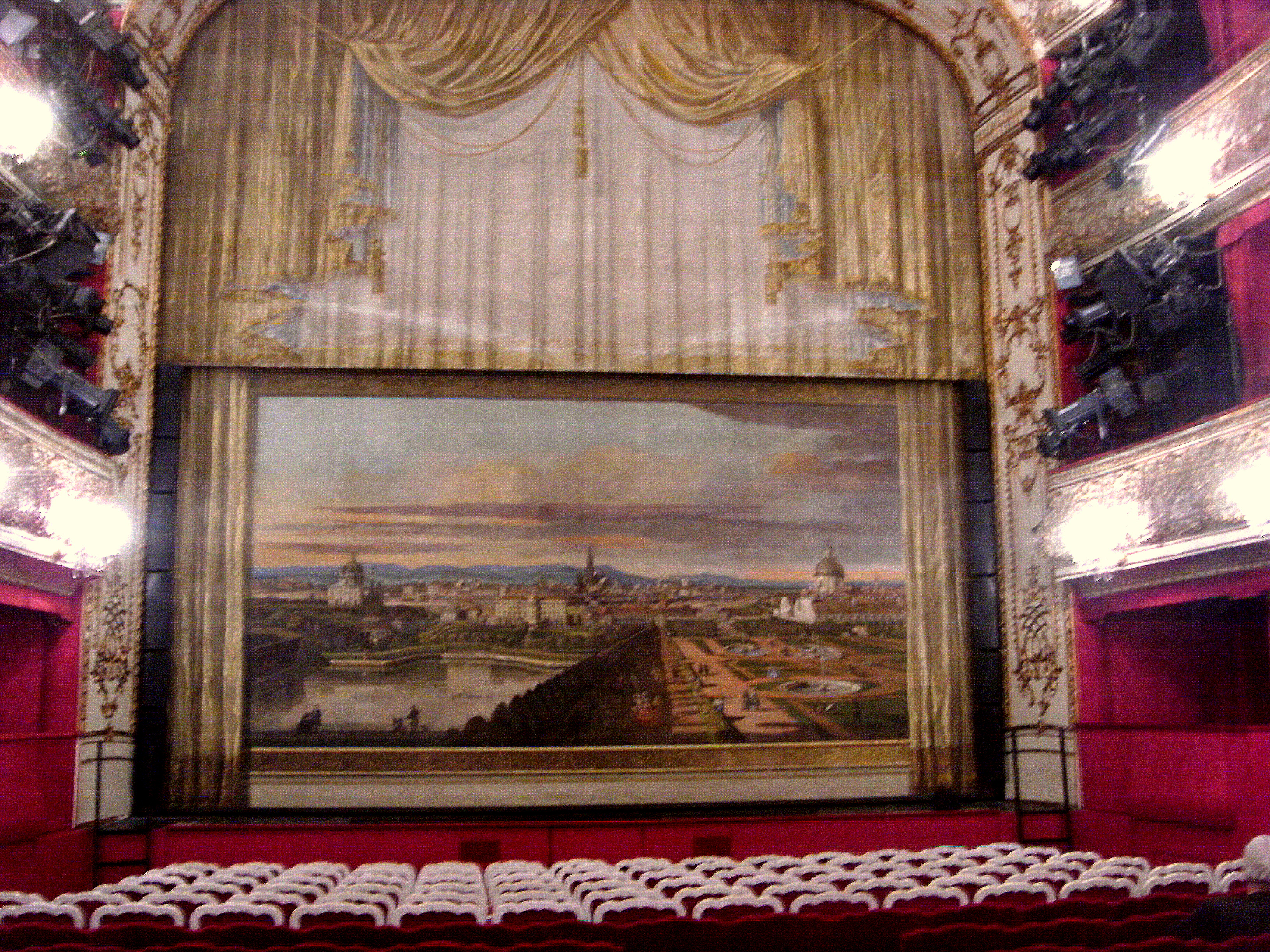 View from the auditorium to the stage, covered by the security curtain, in Josefstadt theatre, Vienna